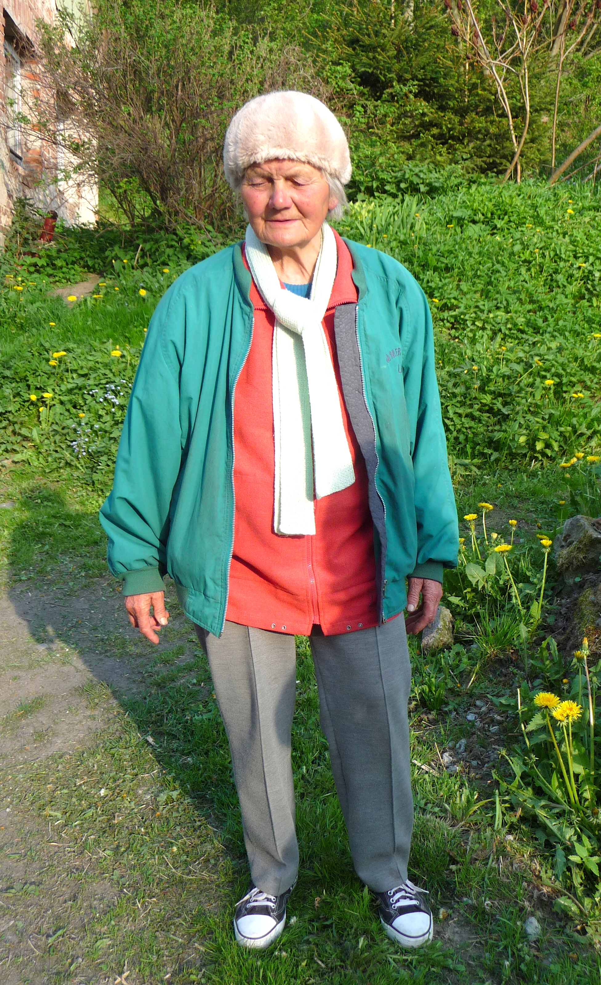 Ms Marie Houšková (Hauschke) of Pstrążna, most likely the last remaining Kłodzko Czech living in Kłodzko (Pstrążne, Lower Silesian Voivodeship, Poland).